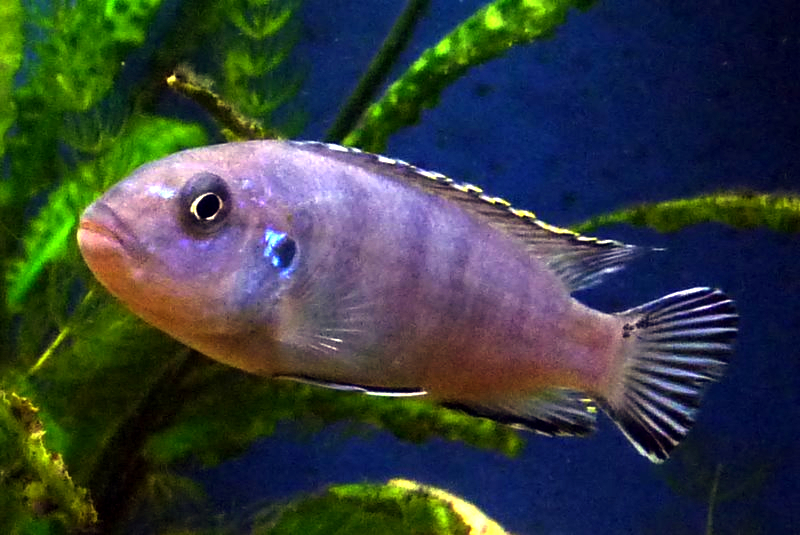 A Female of Pseudotropheus Socolofi from Lake Malawi